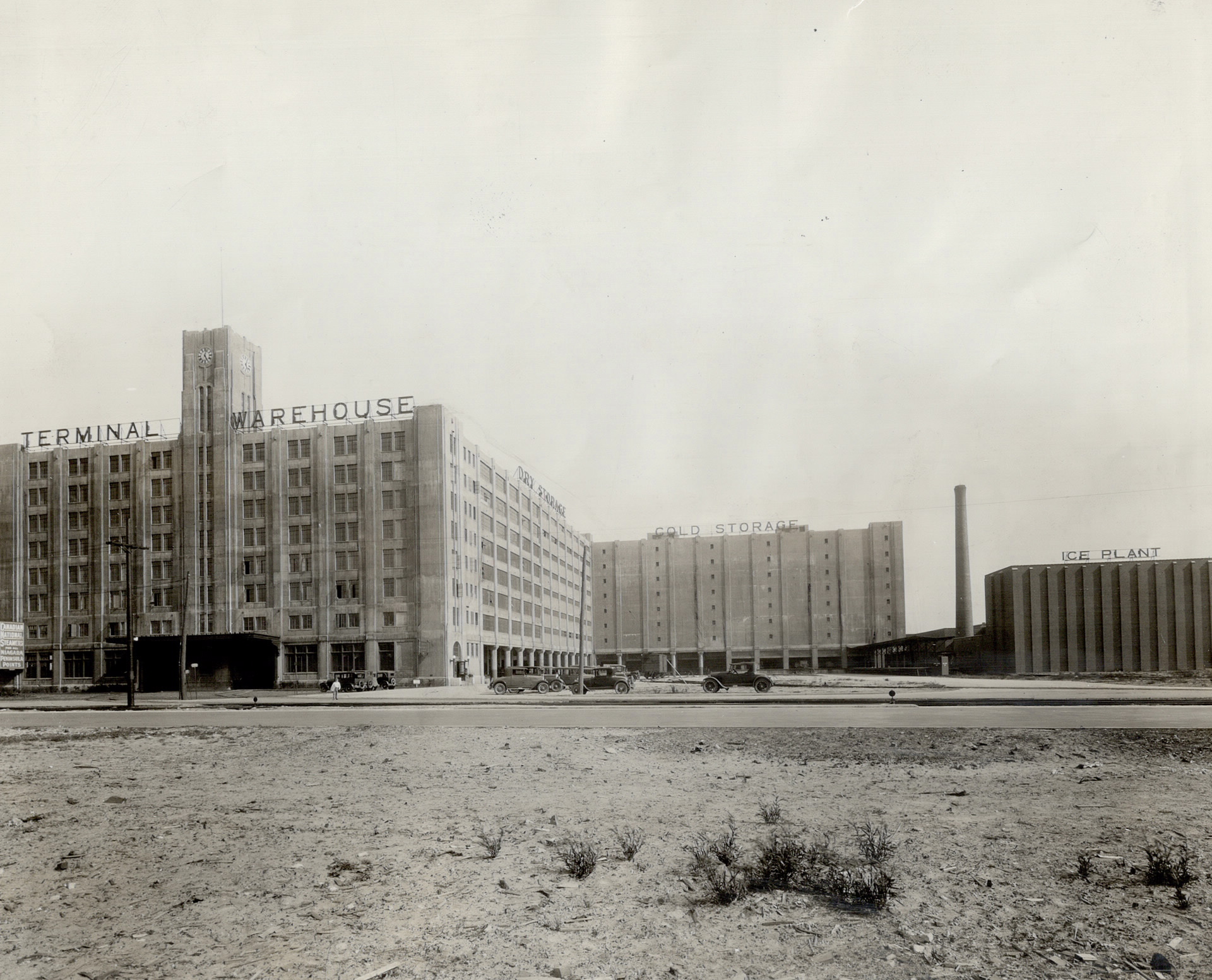 Three buildings - dry storage, cold storage and ice plant of Terminal Warehouse complex in Toronto, Ontario, Canada